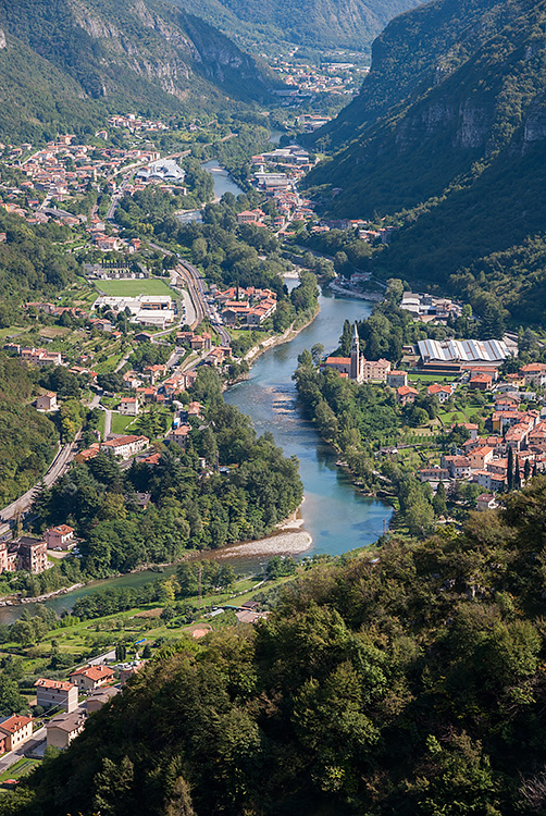 Brenta Valley, Italy